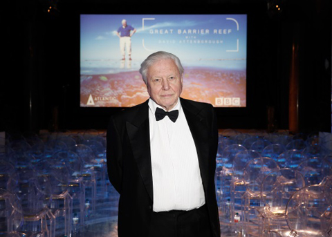 Photograph of Sir David Attenborough at Australia House, London, for a special screening of his Great Barrier Reef series held by Tourism Australia and the Australian High Commission